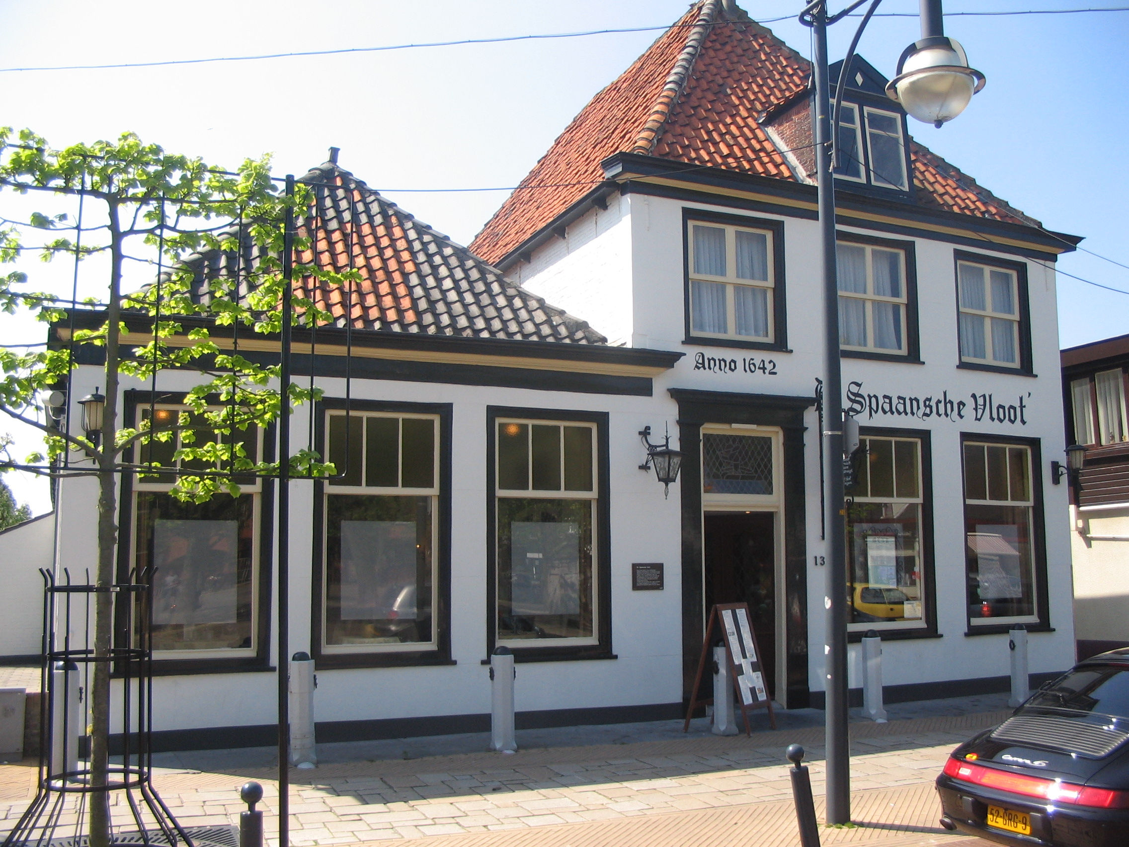 De Spaansche Vloot, a rijksmonument and restaurant in 's-Gravenzande, the Netherlands. It was an inn.